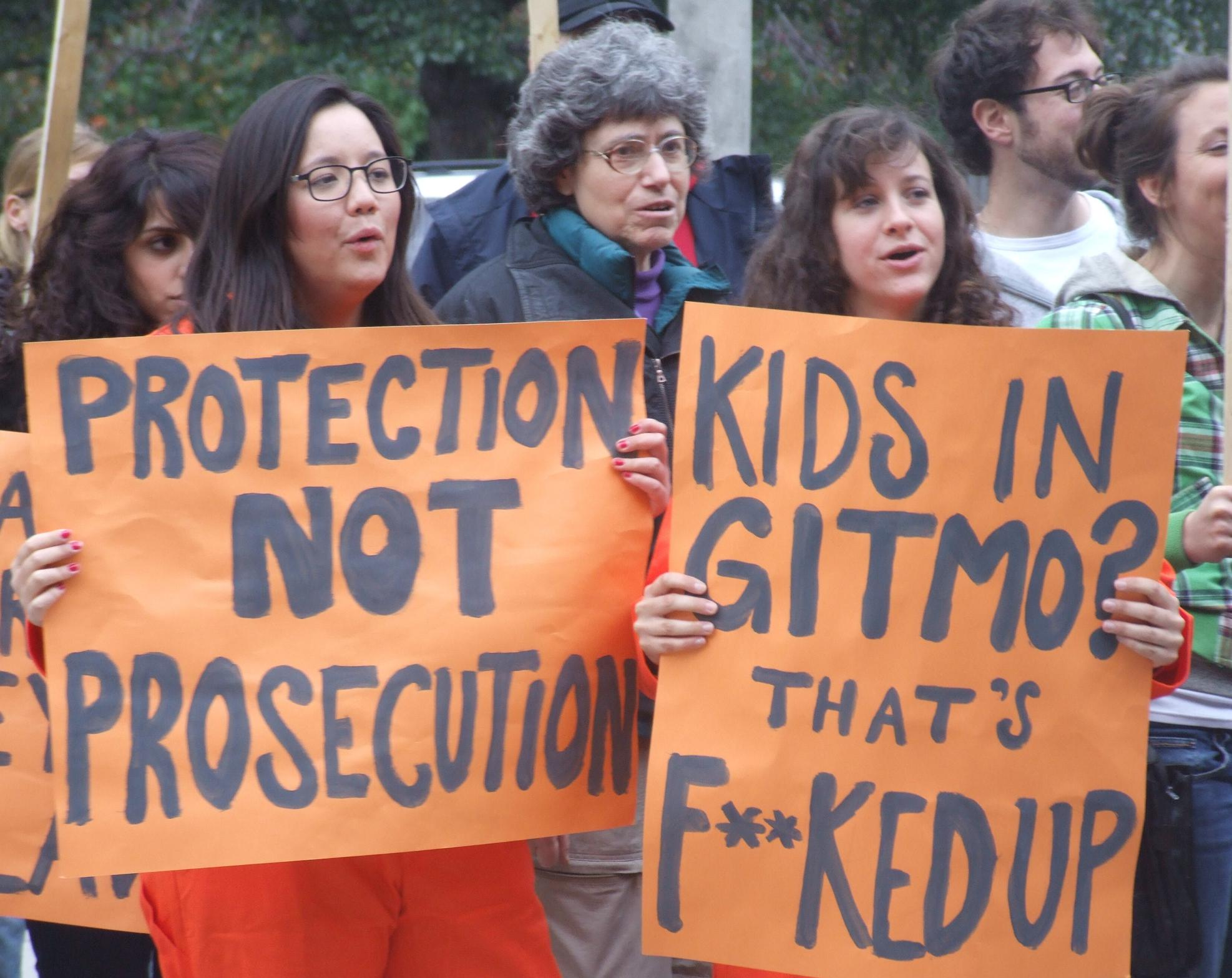 Toronto protester in 2008 protesting the detention of minors in the Global War on Terror